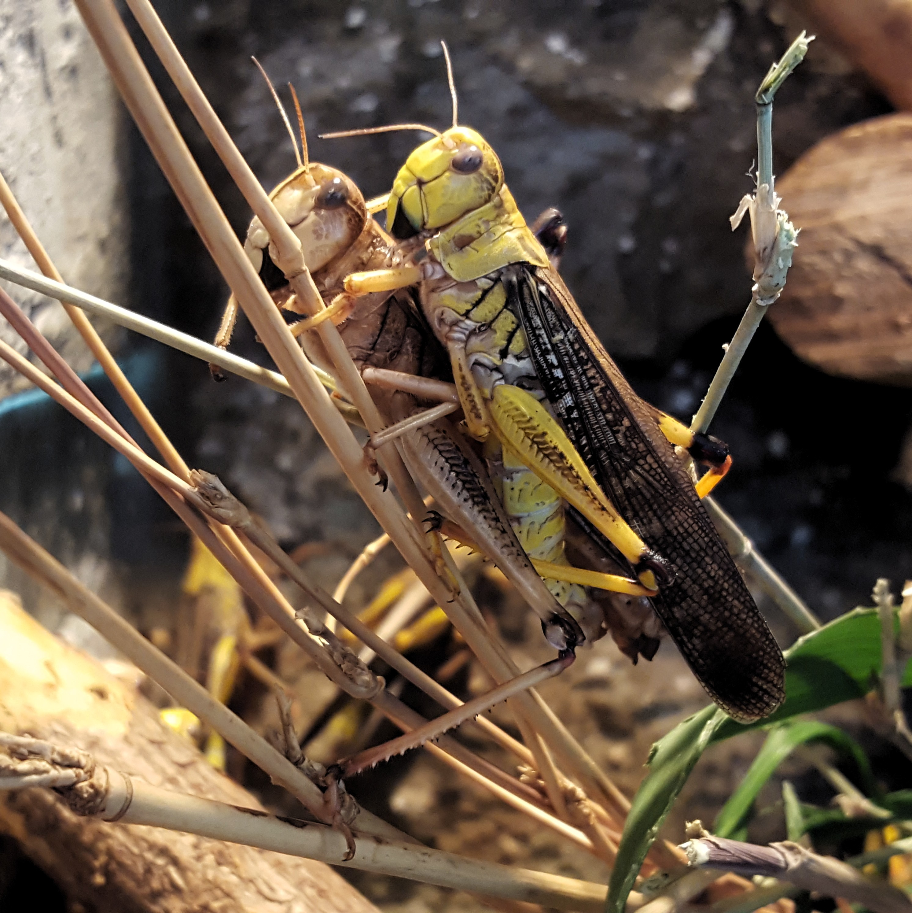 Locusta migratoria at Bydgoszcz Zoo